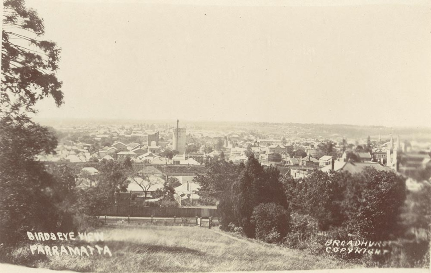 Birdseye View, Parramatta